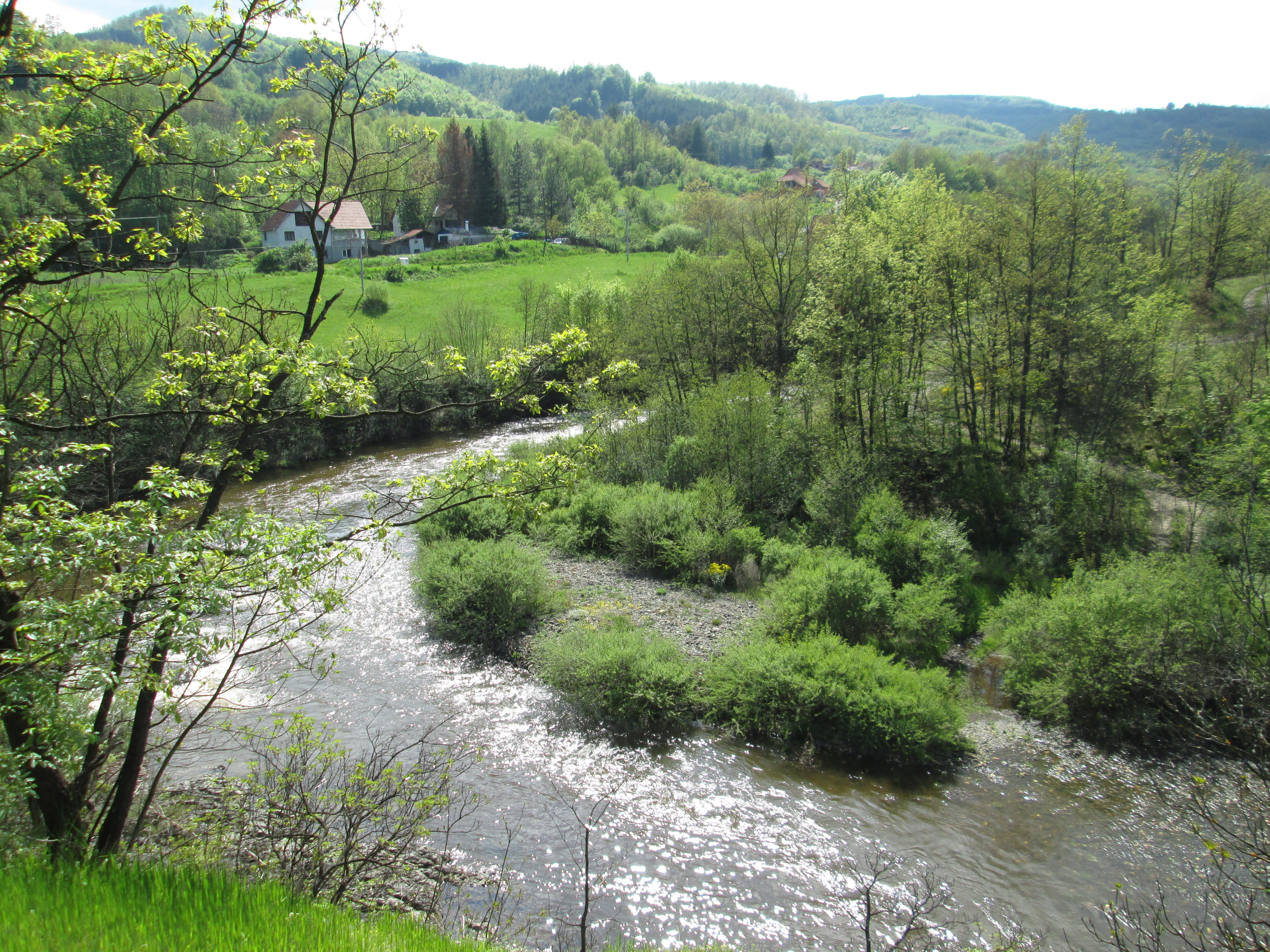 River Kamenica, Bogdanica Српски (ћирилица): Река Каменица, Богданица